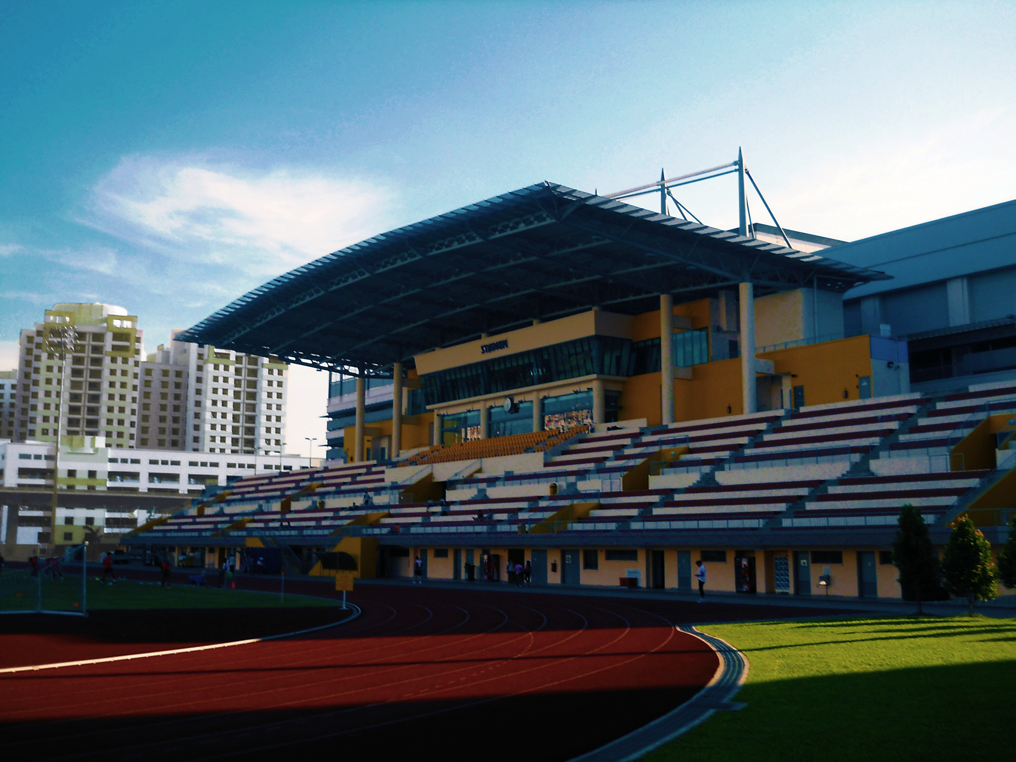 The seating gallery and part of the field